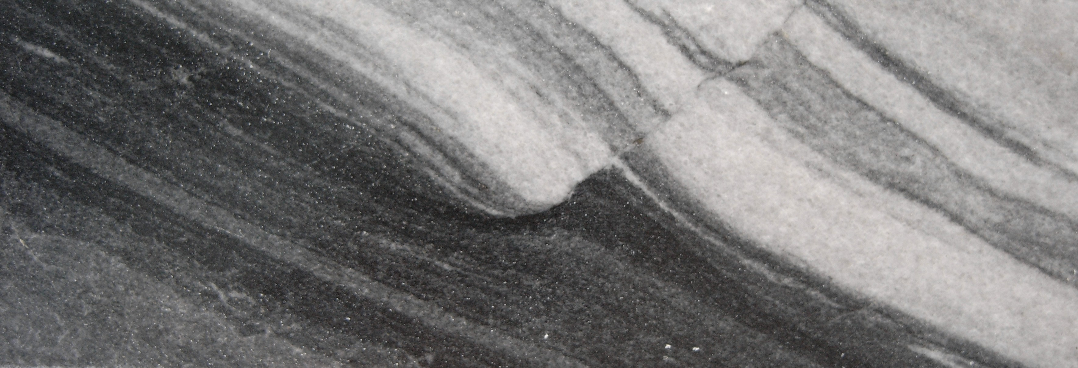 dislocation by marble